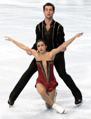 Marissa Castelli and Simon Shnapir at the 2009 Trophée Eric Bompard.